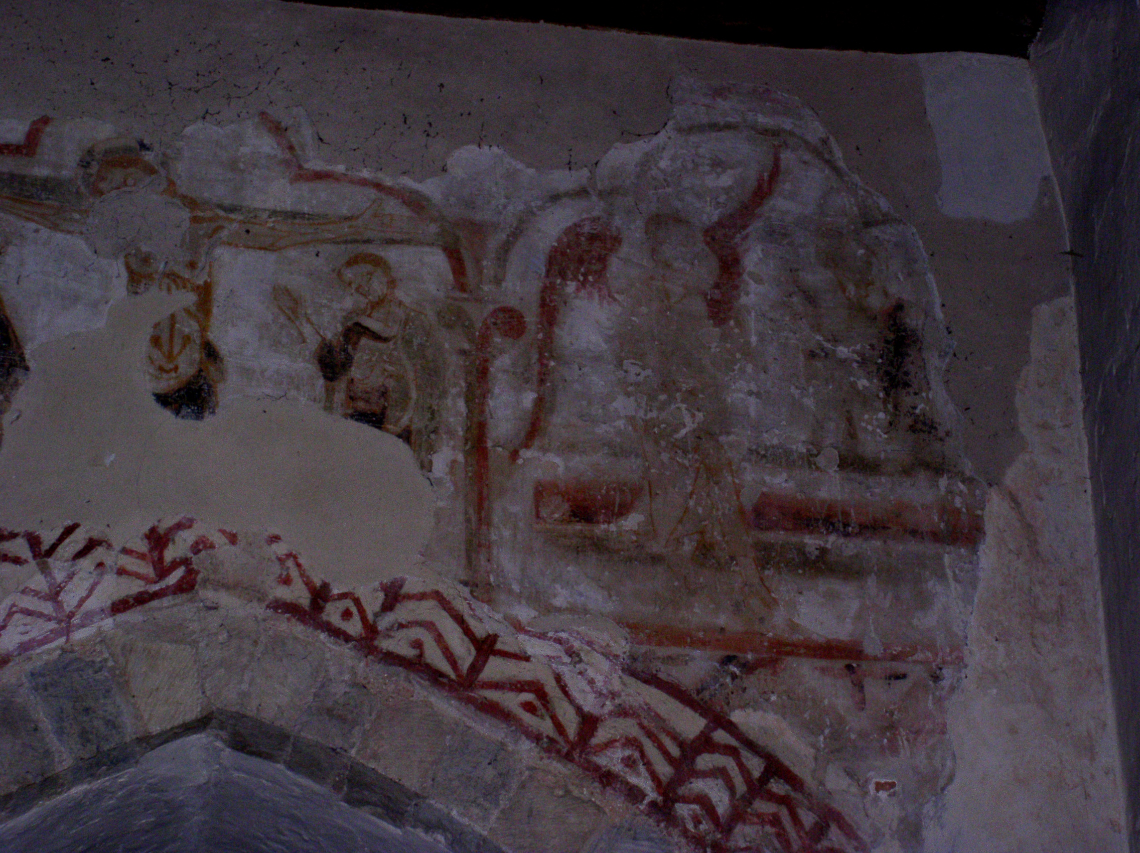 Wall painting of the Crucifiction and angels at tomb in St Mary's Church, West Chiltington, West Sussex, England